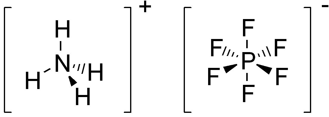 chemical structure of ammonium hexafluorophosphate